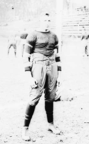 Damaged photo of Tennessee football player "Buck" Hatcher